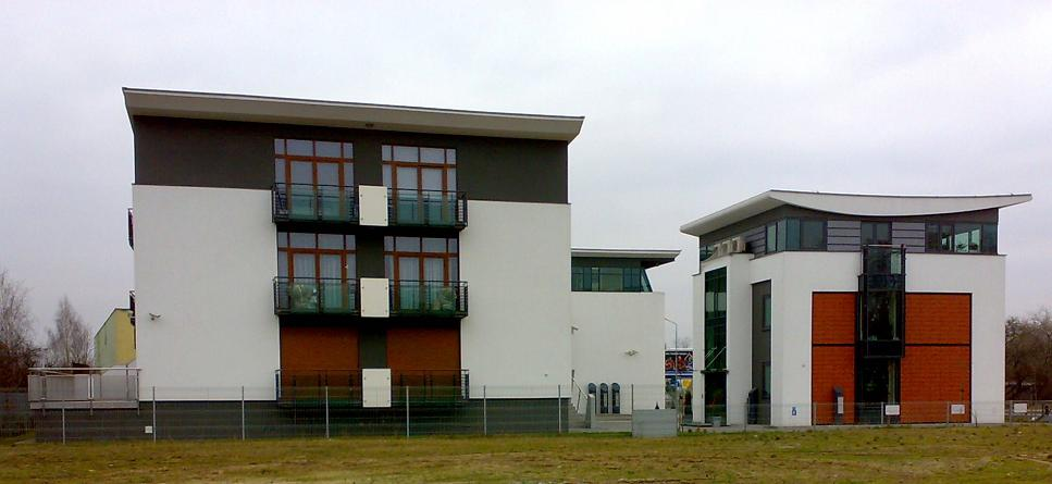 Poznan - Trojpole District, Office Buildings.